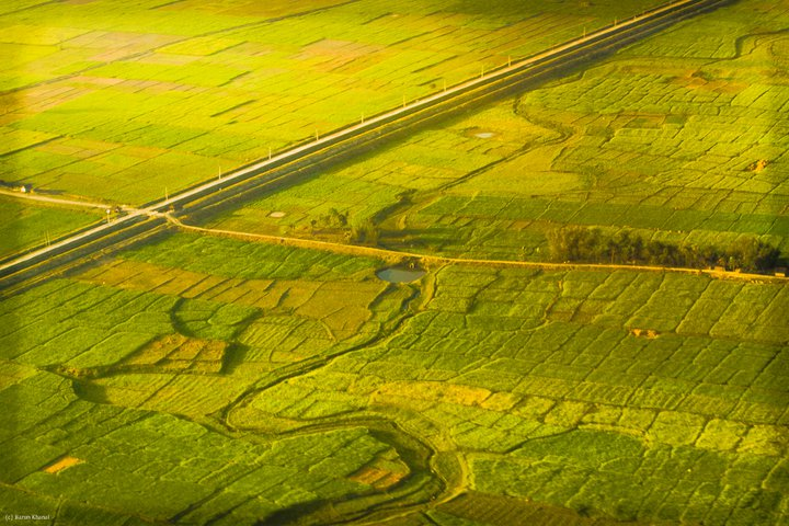 a aerial view of field in Madhesh region of Nepal